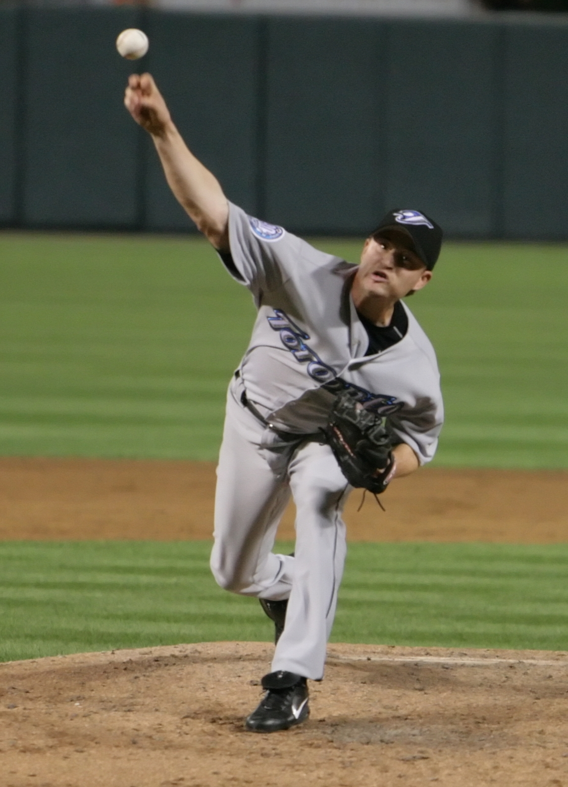 Jason Frasor